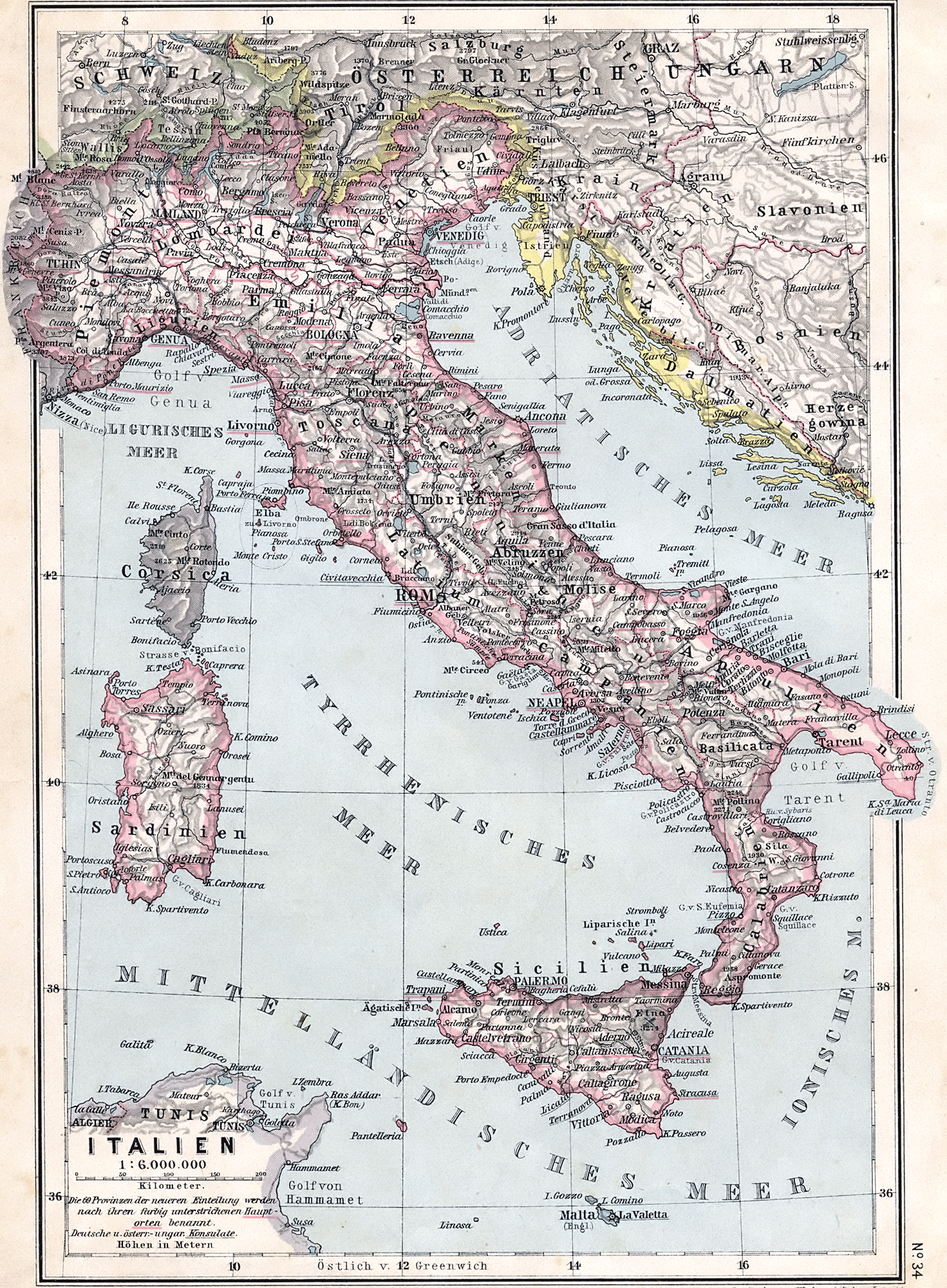 Historical map of Italy (1905)